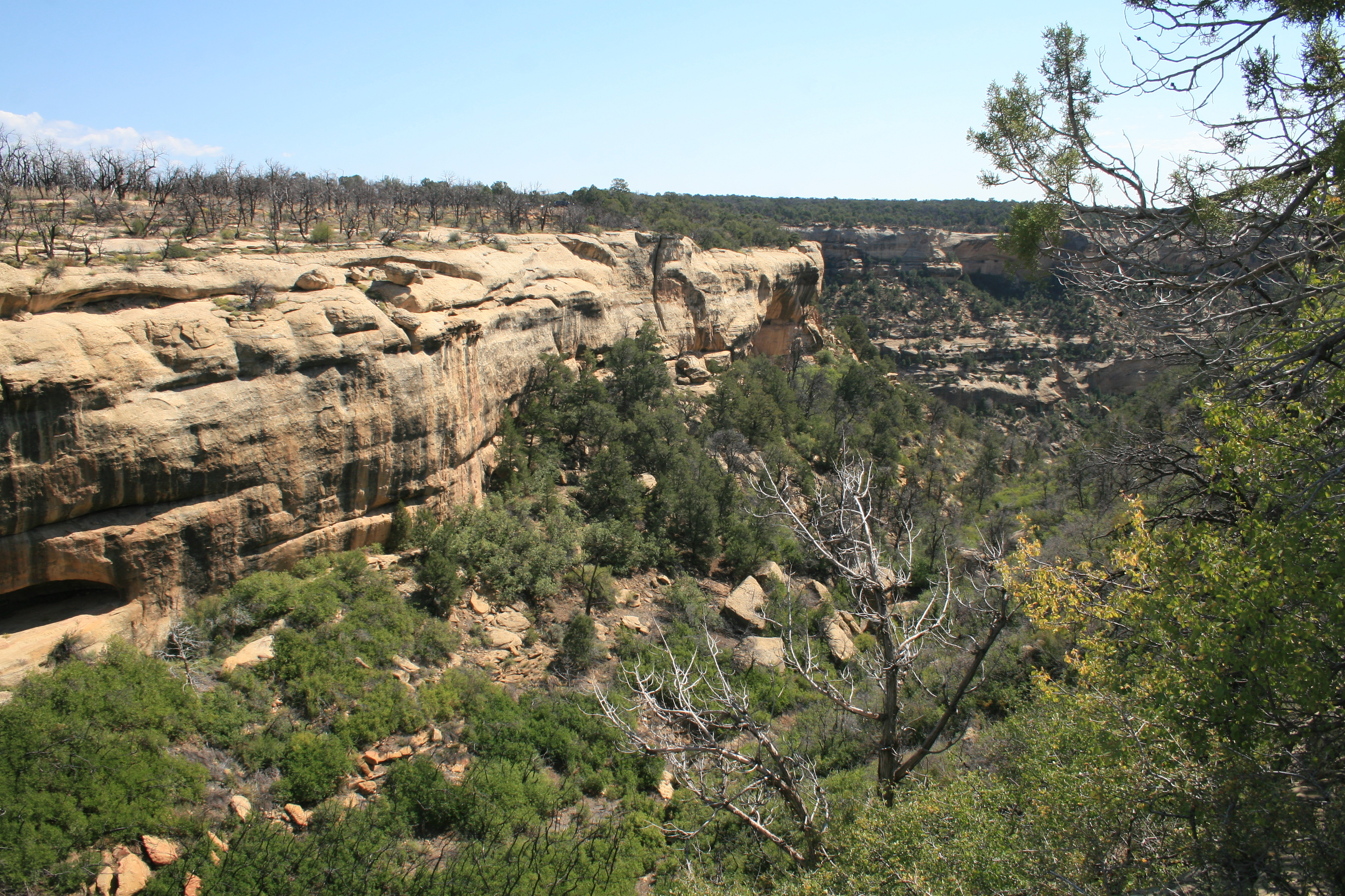 Mesa Verde National Park, Colorado Fewkes Canyon with the Cliff Canyon in the background, as seen from the viewpoint opposite of the Fire Temple.